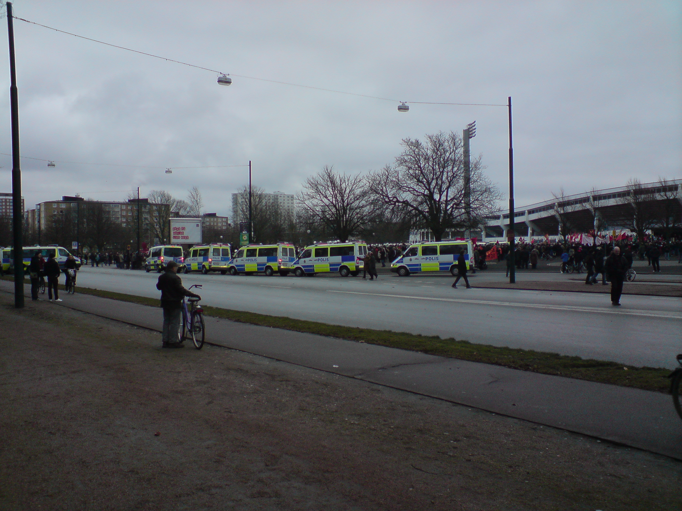 Svedish police vans during the protests againts the Davis Cup tennis game Sweden Vs. Israel. 7 March 2007